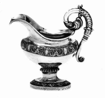 Silvercreamer from 1838. Probably made by gold/silversmith Fredrik Julius Brinck (1808-1857) in Oslo (Christiania), Norway.